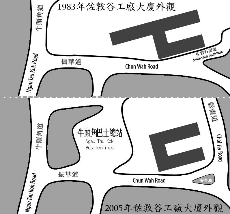 A sketch map of Jordan Valley Factory Estate.